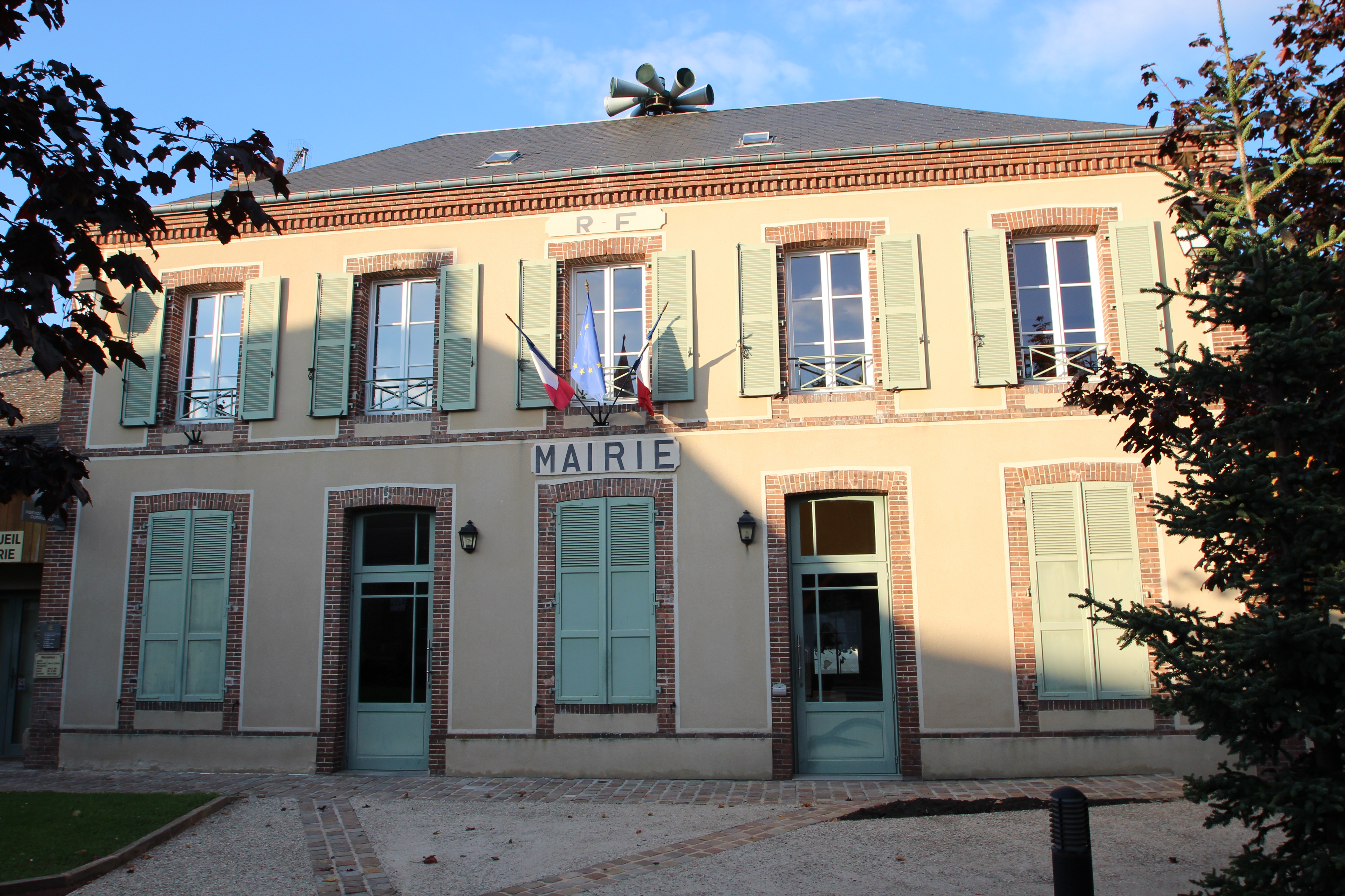 Town hall of Villemeux-sur-Eure, France. Object location48° 40′ 28.74″ N, 1° 27′ 37.2″ E